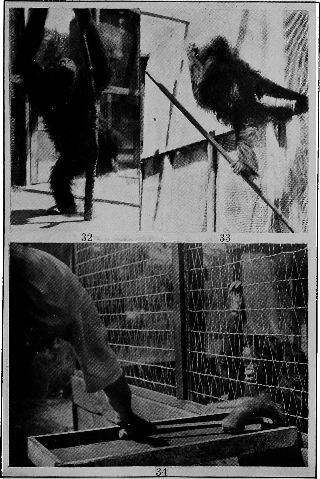 Title: The mental life of monkeys and apes; a study of ideational behavior Year: 1916 (1910s) Authors: Yerkes, Robert Mearns, 1876-1956 Subjects: Monkeys; Apes Publisher: Cambridge, Boston, Mass. New York, H. Holt Text Appearing Before Image: PLATE VI Text Appearing After Image: Figure 32.—^Julius obtaining banana by using pole to climb up on and spring from. Figure 33.—^Using pole to swing out on so that banana could be grasped. Figure 34.—Using stick to draw carrot within reach.